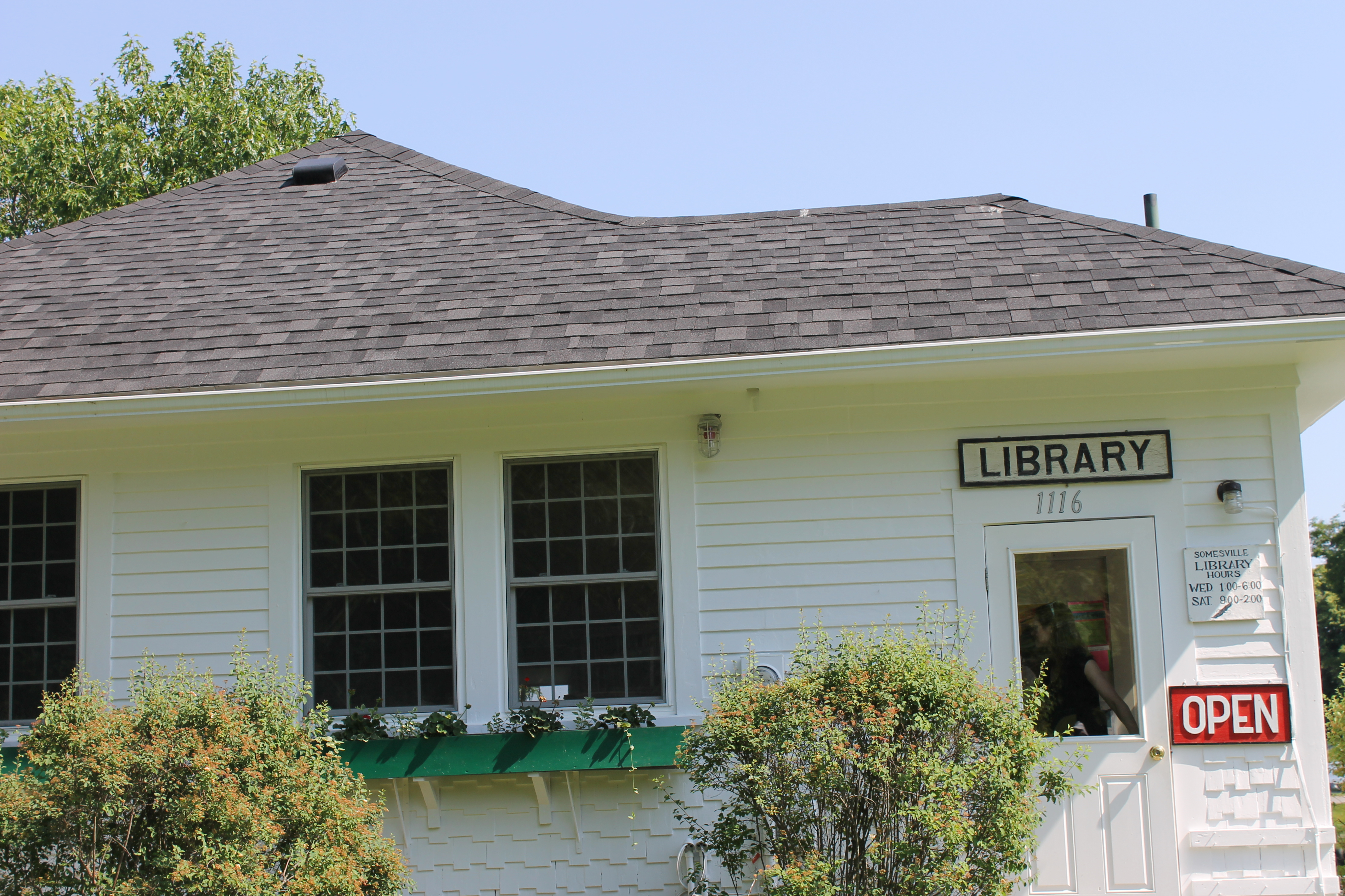 I took photo with Canon camera of Somesville, ME, library.